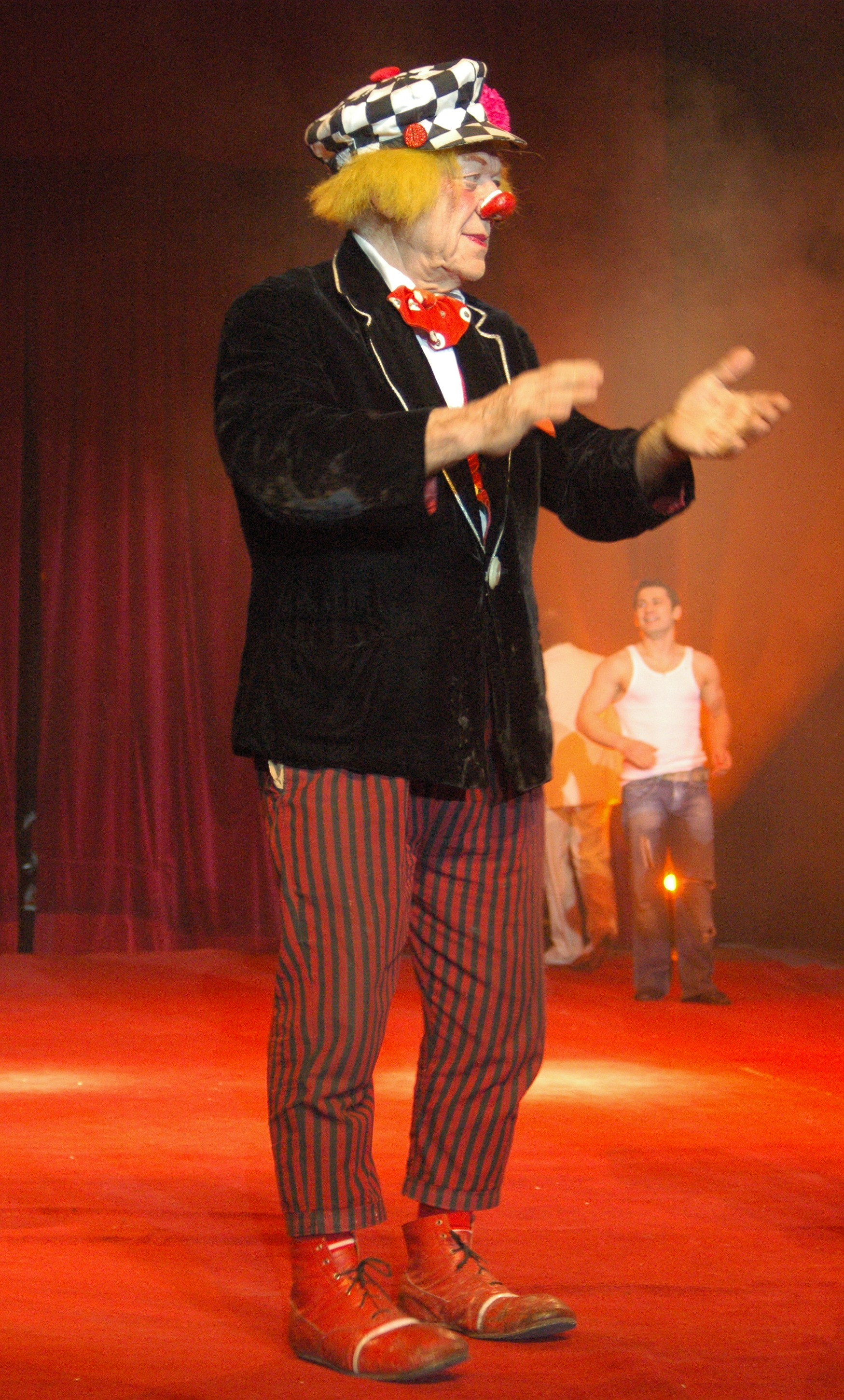 Oleg Popov performing with the Russian State Circus in Worms, Germany.